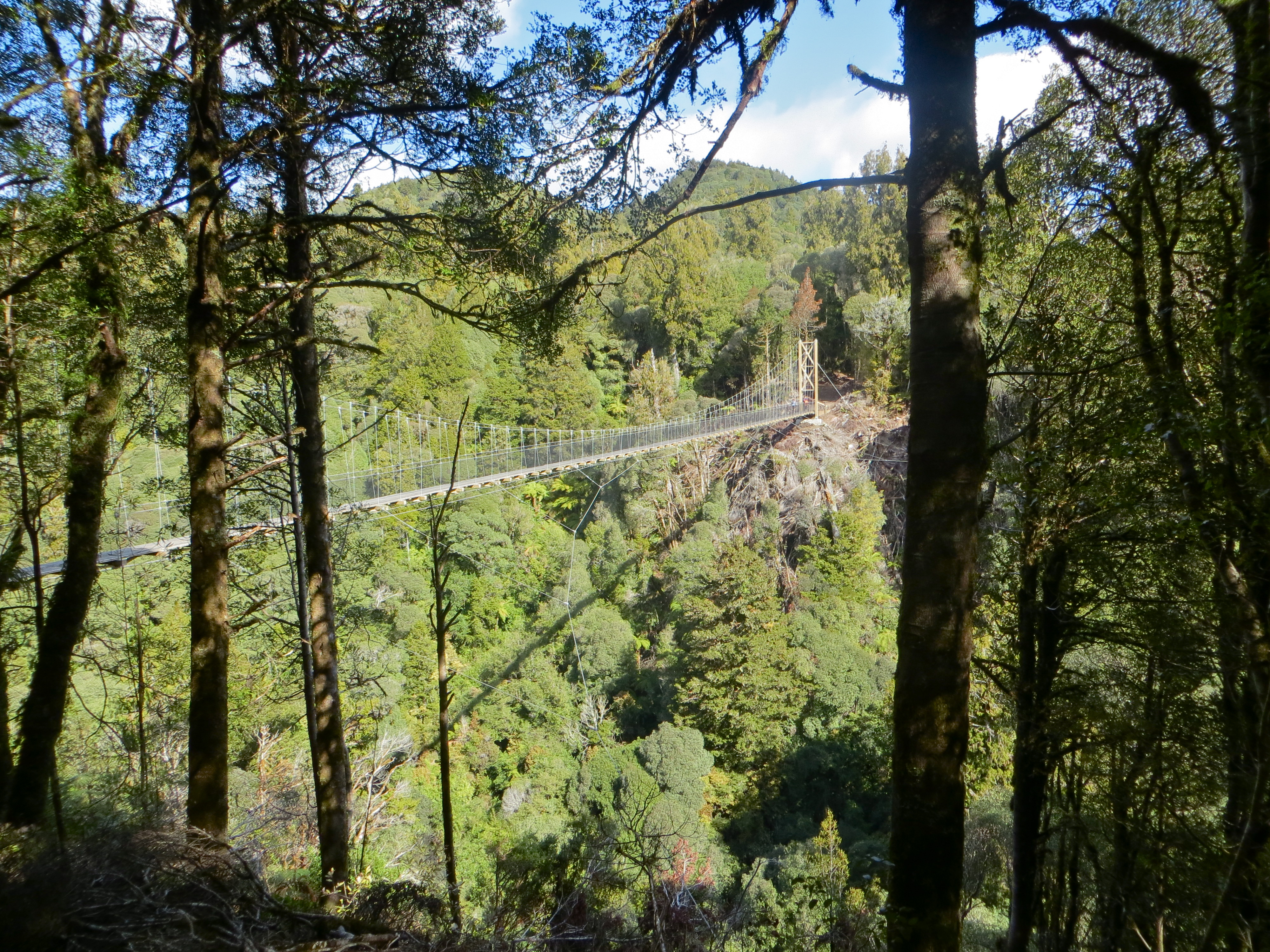 opened December 2012